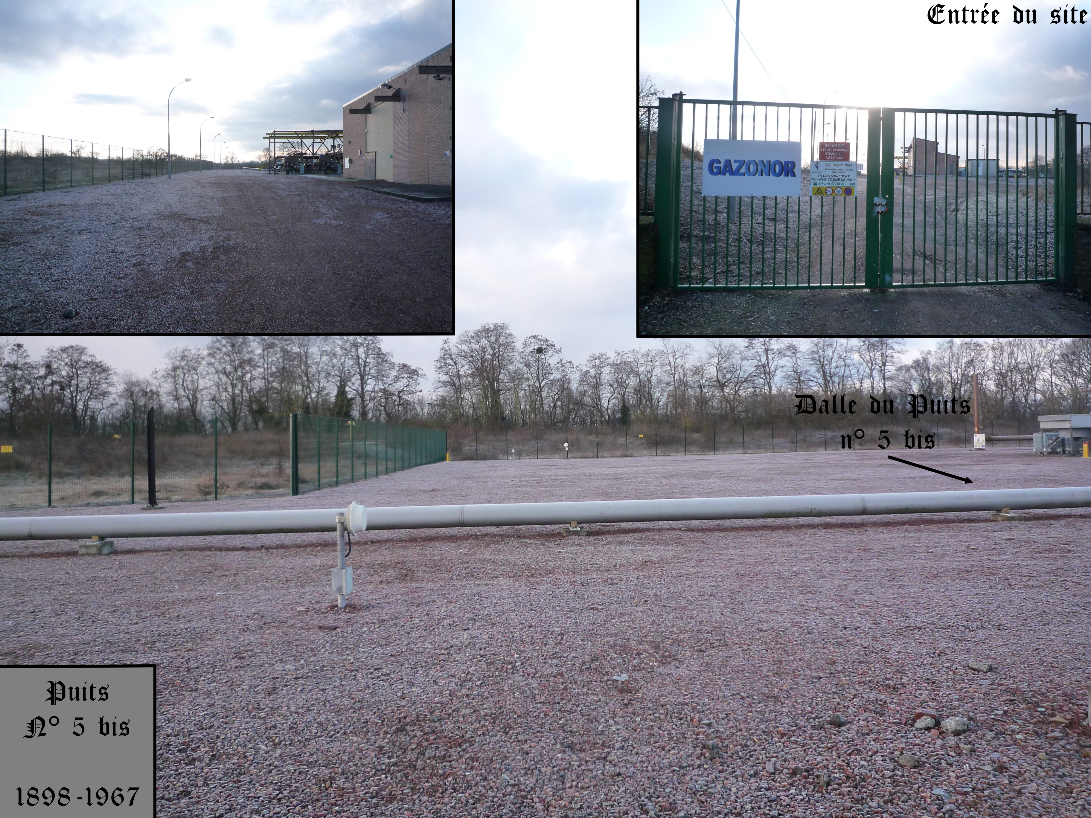 Pit n° 5 bis, Compagnie des mines de Lens, Avion, Pas-de-Calais, Nord-Pas-de-Calais, France.